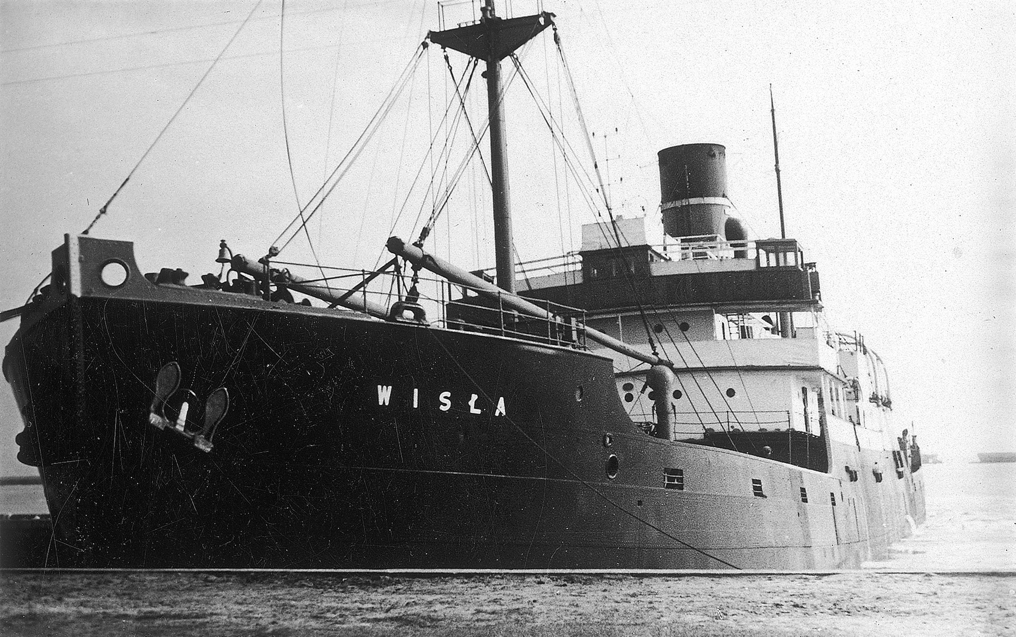 "Wisła" ship in Gdynia (or Gdańsk).